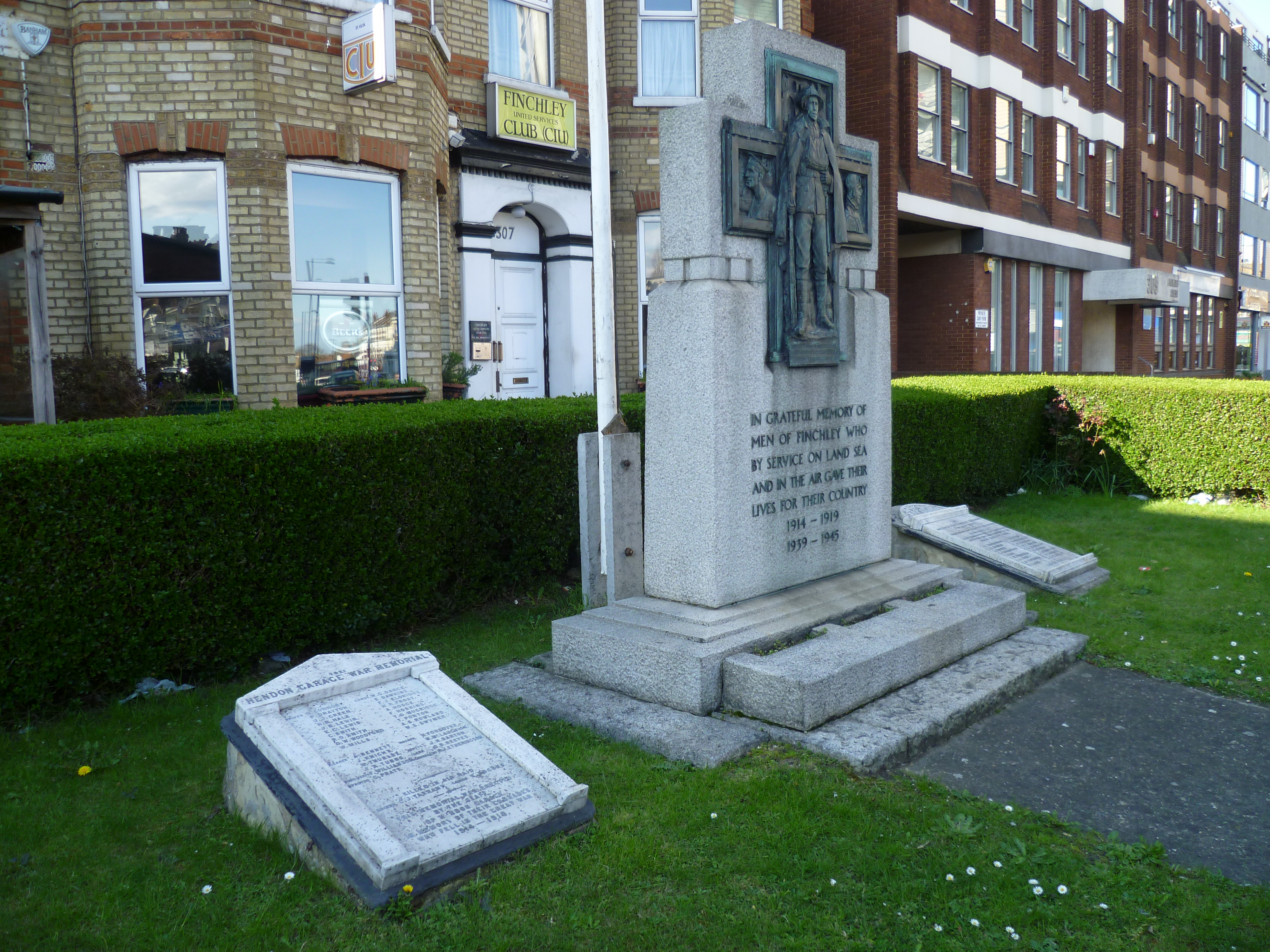 Finchley War Memorial